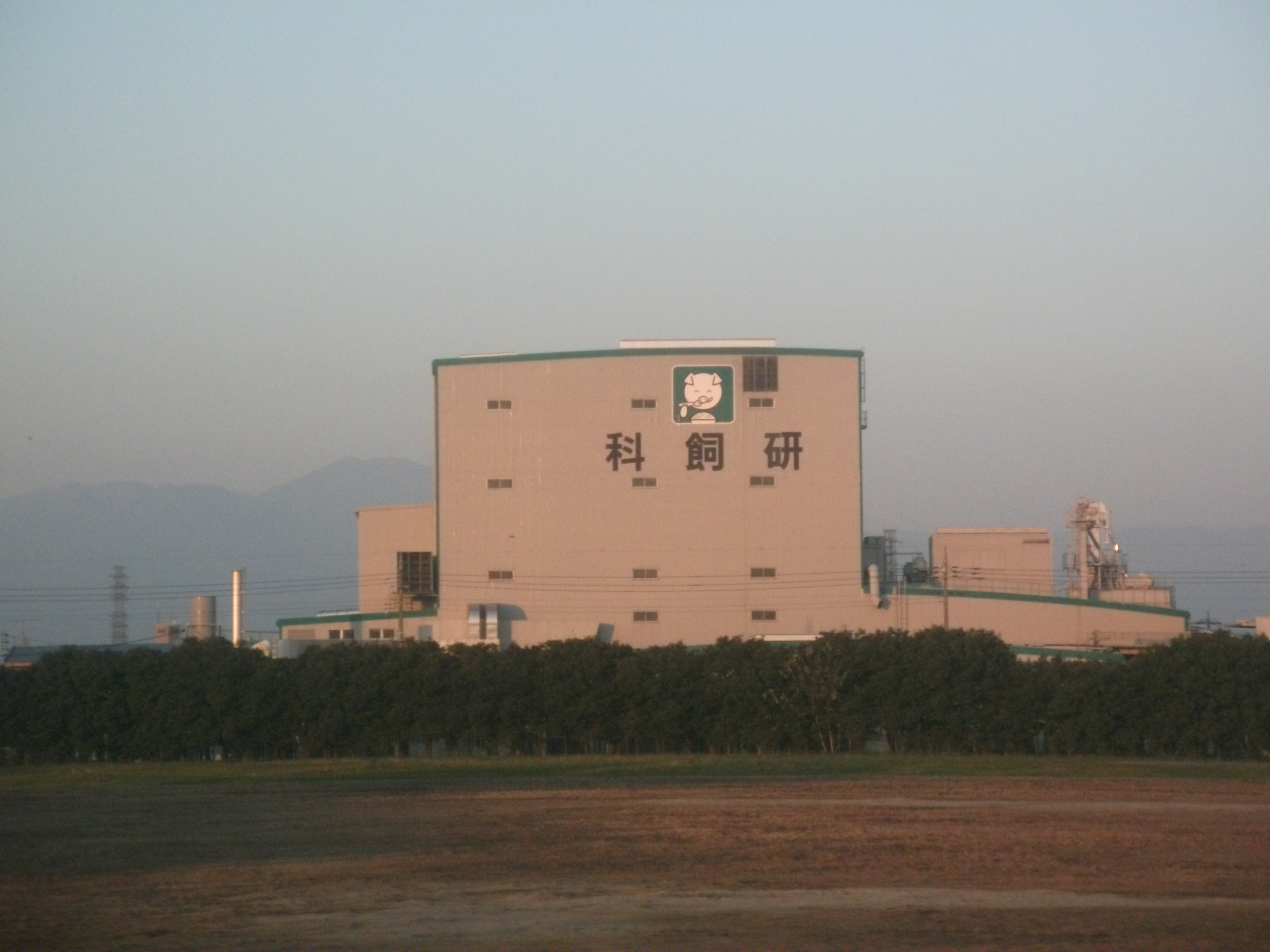 Scientific Feed Laboratory, Takasaki factory